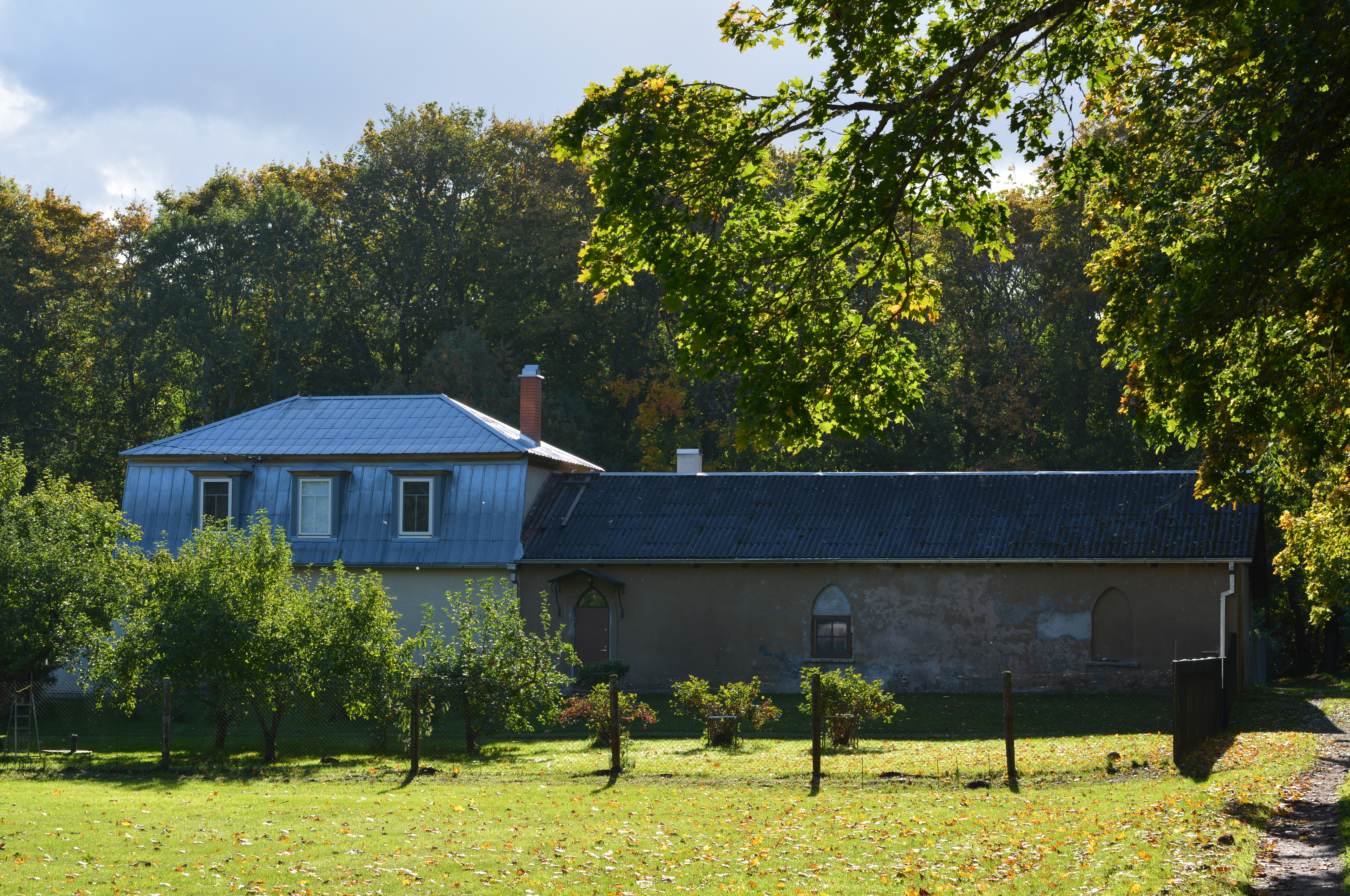 Anija manor gardener's house